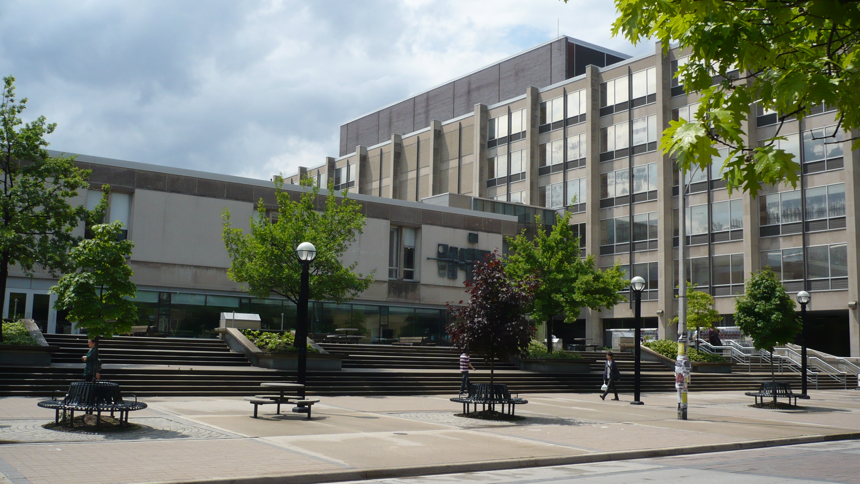 The main building of the Faculty of Arts and Science at the University of Toronto